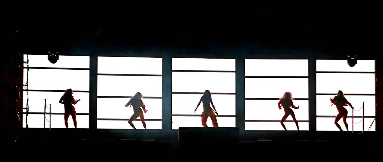 German Pop-Schlager-Singer Vanessa Mai during her "Regenbogen Tour" at Rosengarten Mozartsaal, Mannheim, Germany (17th May 2018).